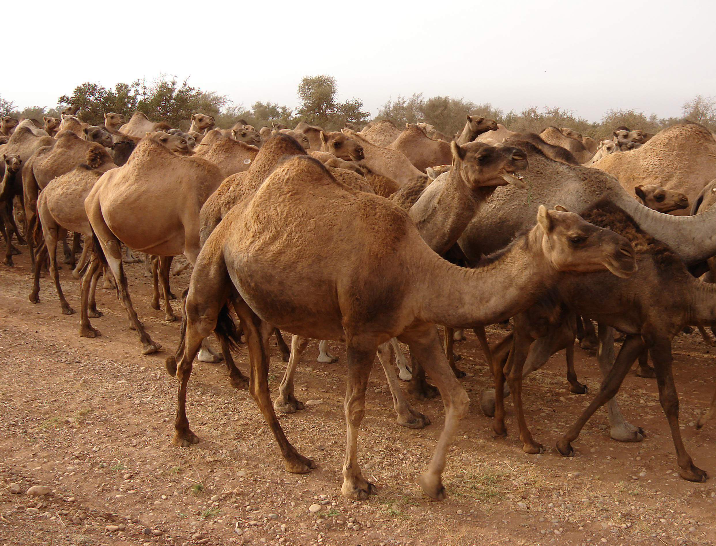 A herd of dromedaries, Morocco